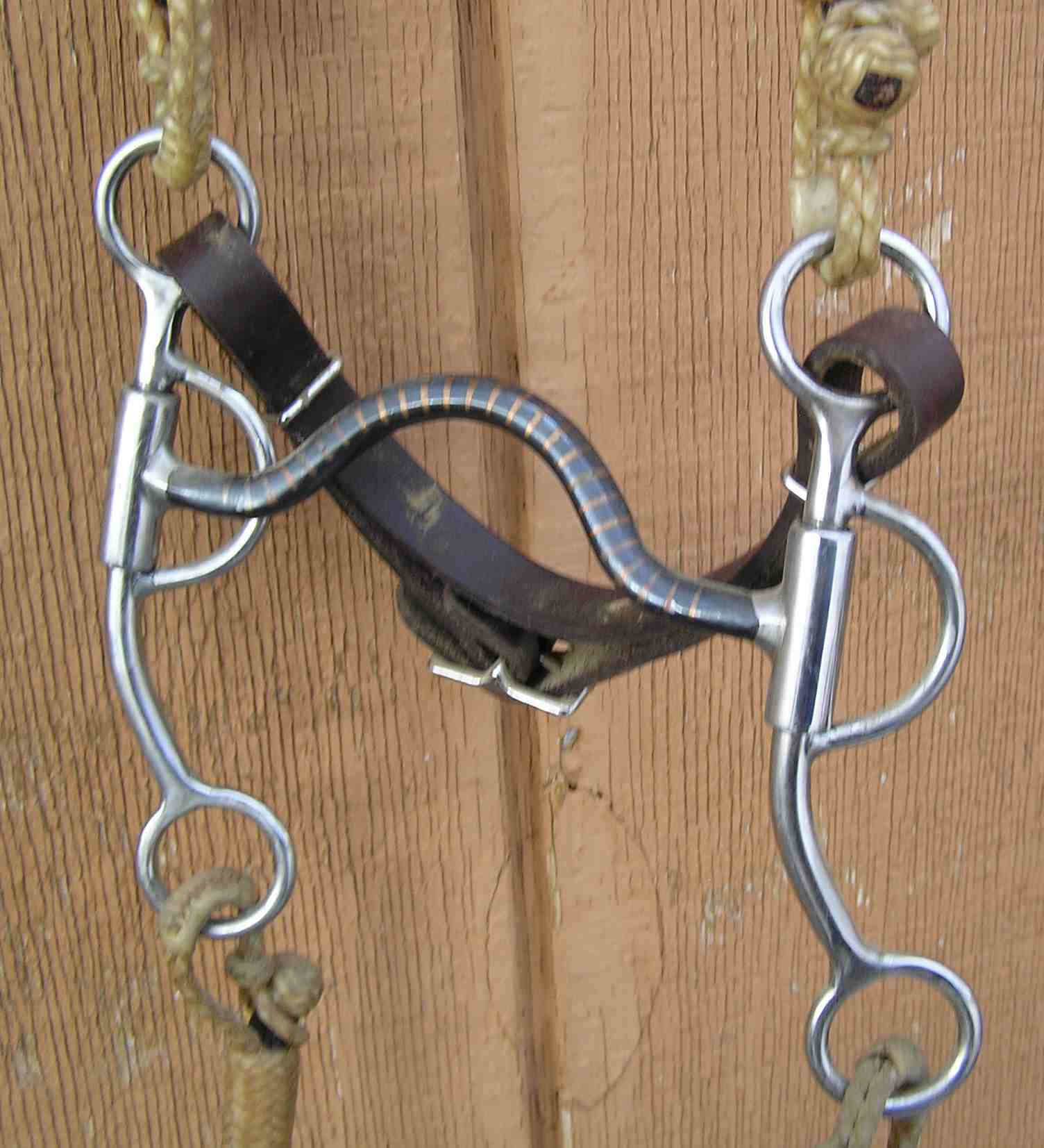 medium port curb bit with short loose shanks and sweet iron mouthpiece inlaid with copper. This bit encourages the horse to salivate, thus promoting a soft mouth